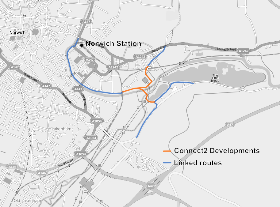 A .png image showing the Sustrans Connect2 scheme between Norwich and Whitlingham Park. A .svg version is available for other wikiusers to create their own version and update the image.